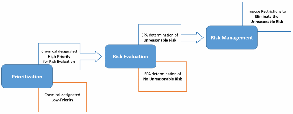 Diagram of the Existing Chemicals Review process under the Toxic Substances Control Act (TSCA).